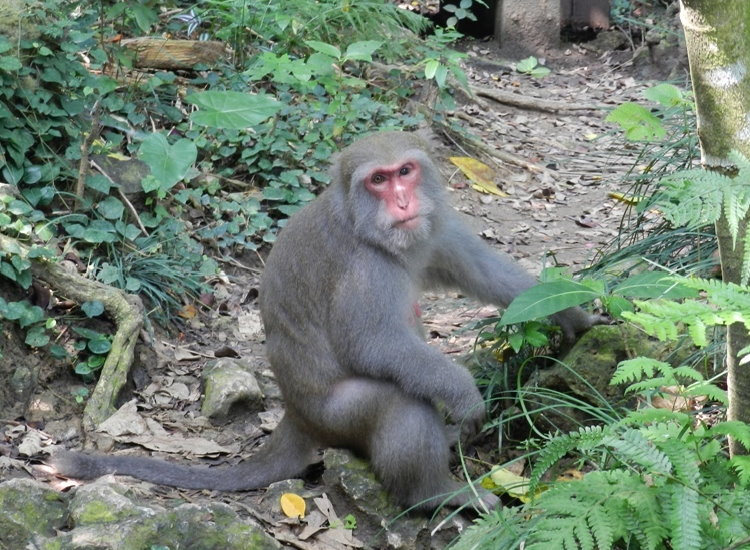 Formosa Macaque